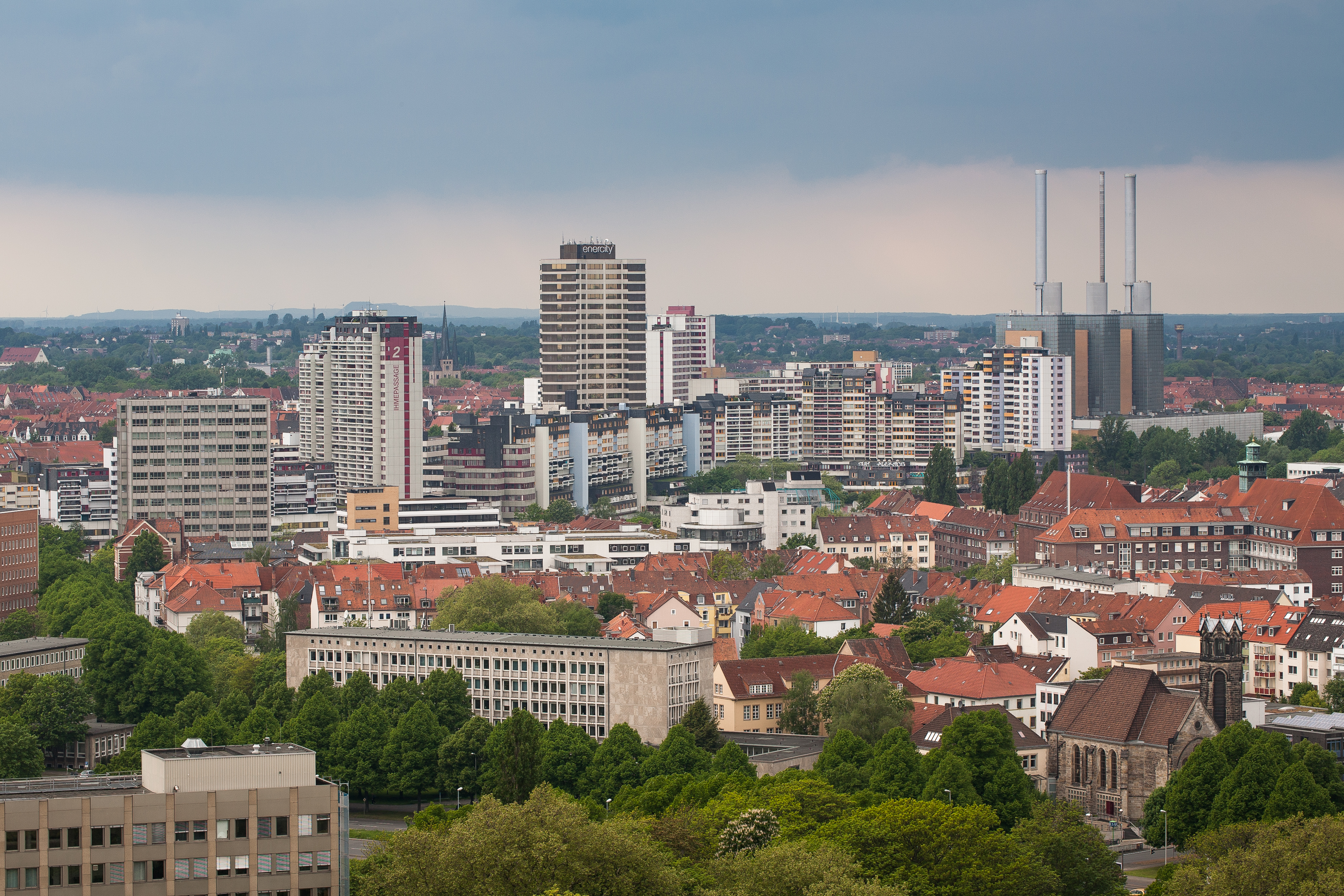 "Ihme-Zentrum" housing area in Hanover, Germany. View from the tower of Hanover's new townhall.